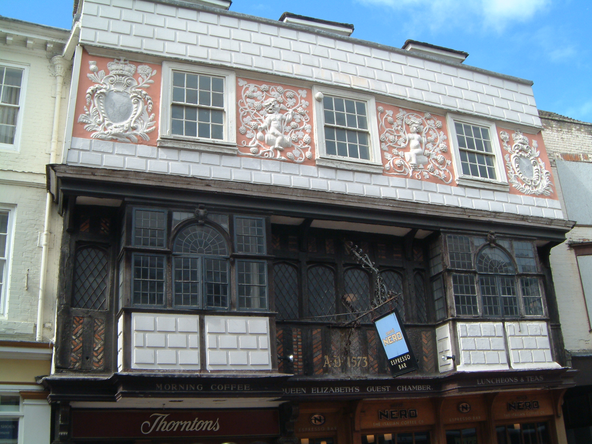 Canterbury: Queen Elizabeth's Guest Chamber (1573)